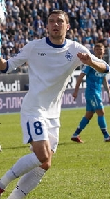 Volodymyr Priyomov